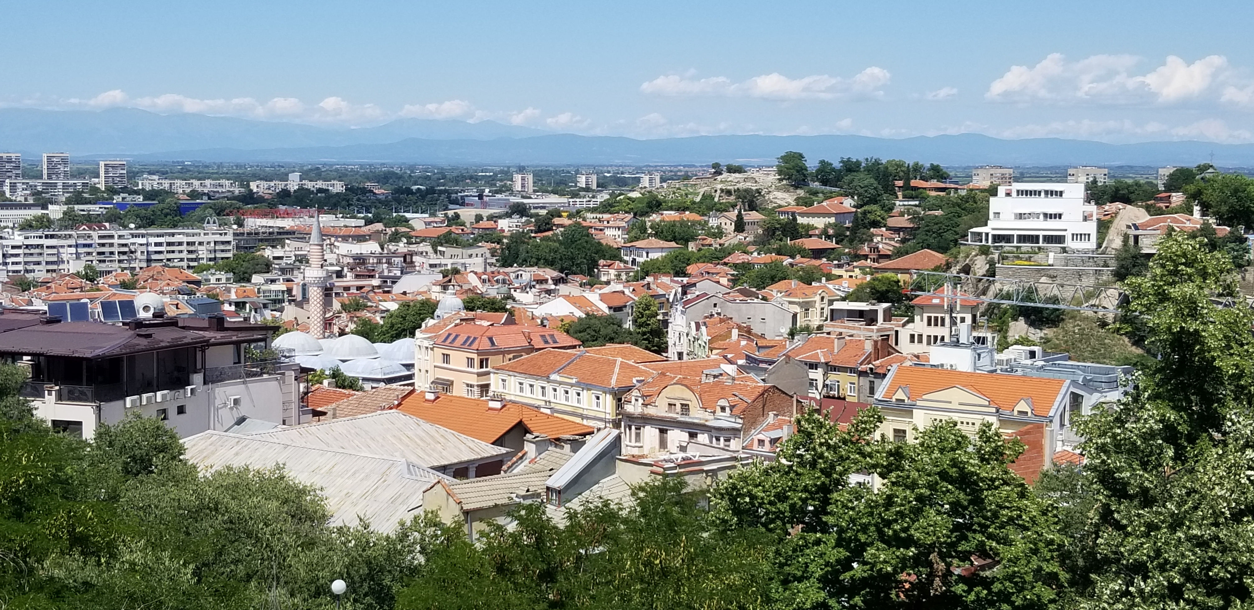 View from Sahat hill in Plovdiv